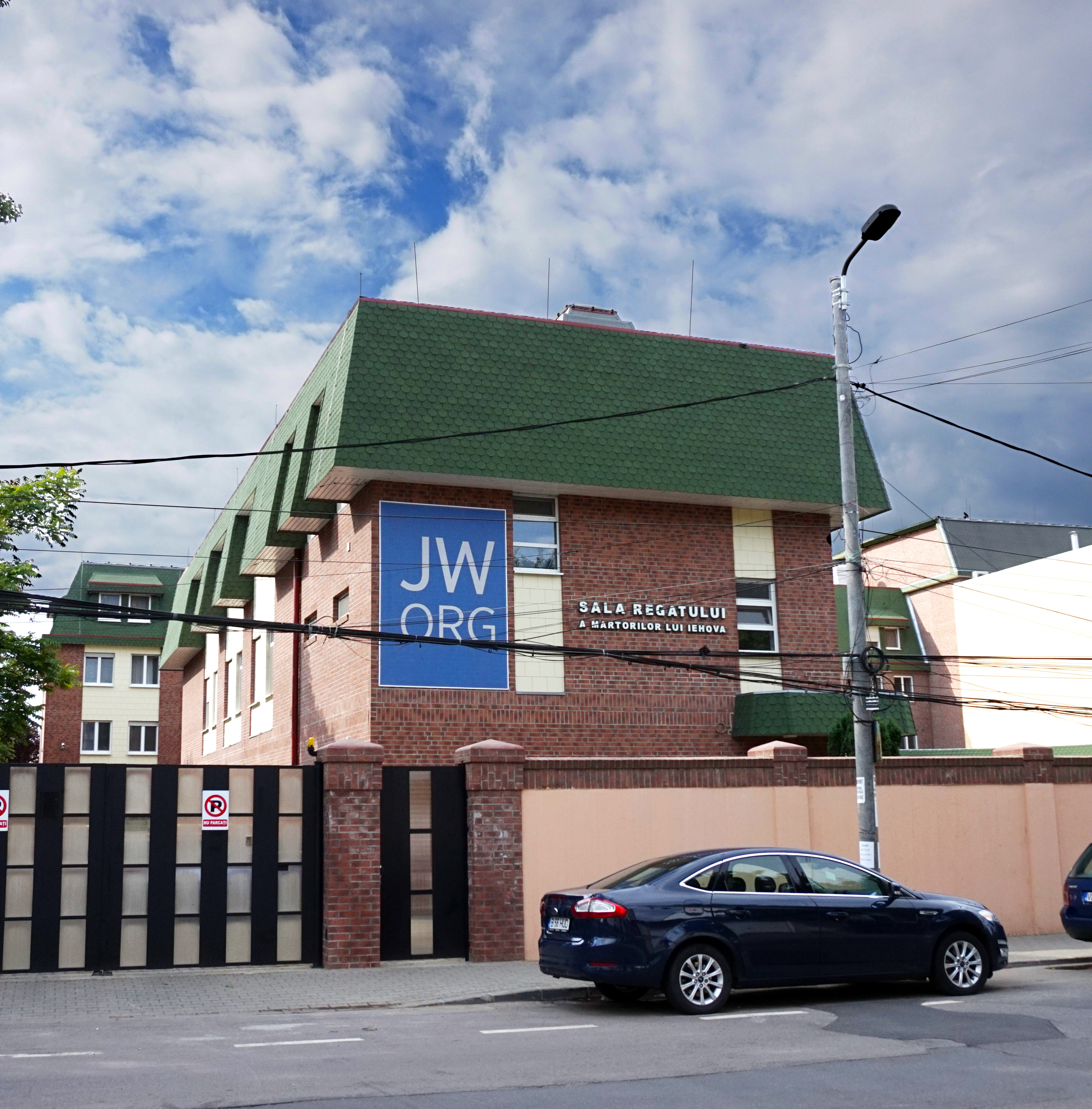 Jehovah's Witnesses Kingdom Hall in Bucharest. This photograph was taken with a Sony Alpha a5000.